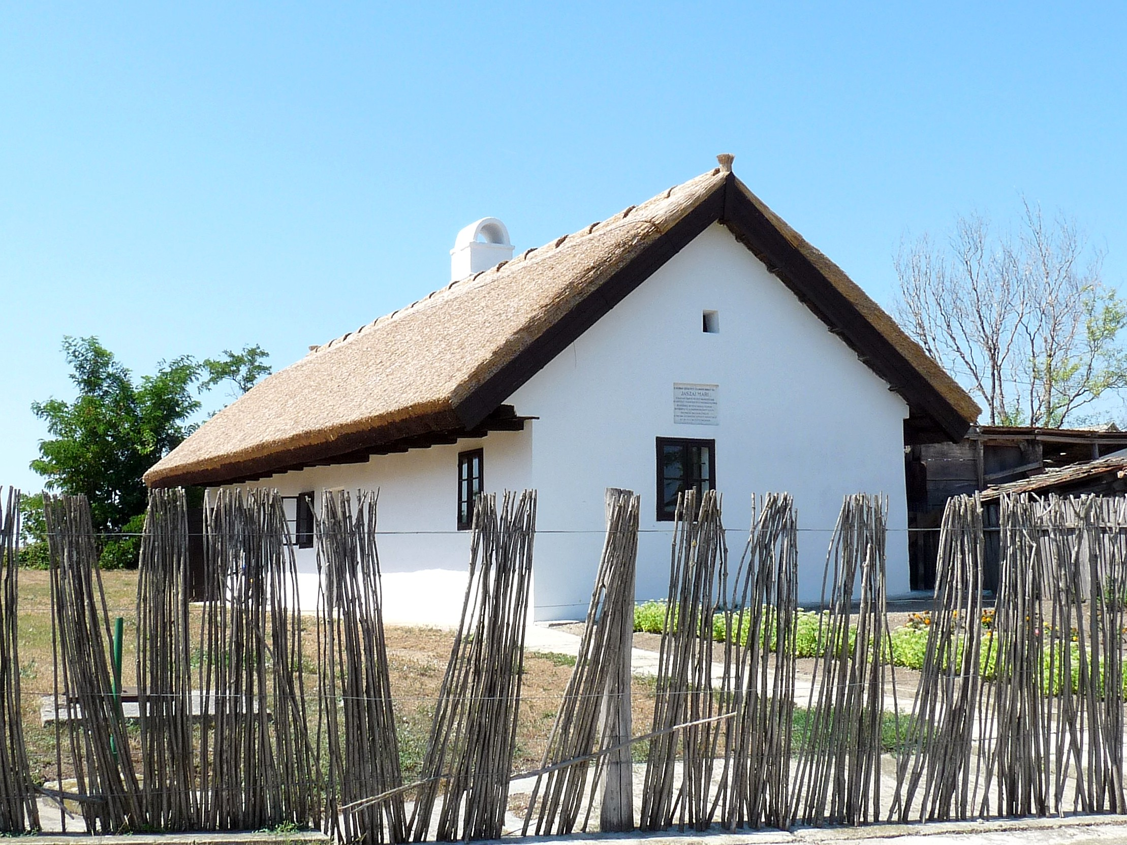 The house in which Mrs Mari Jászai (1850-1926) Hungarian actress was born. Now it is a memorial house. (Ászár, Jászai Mari Street Nr 17)